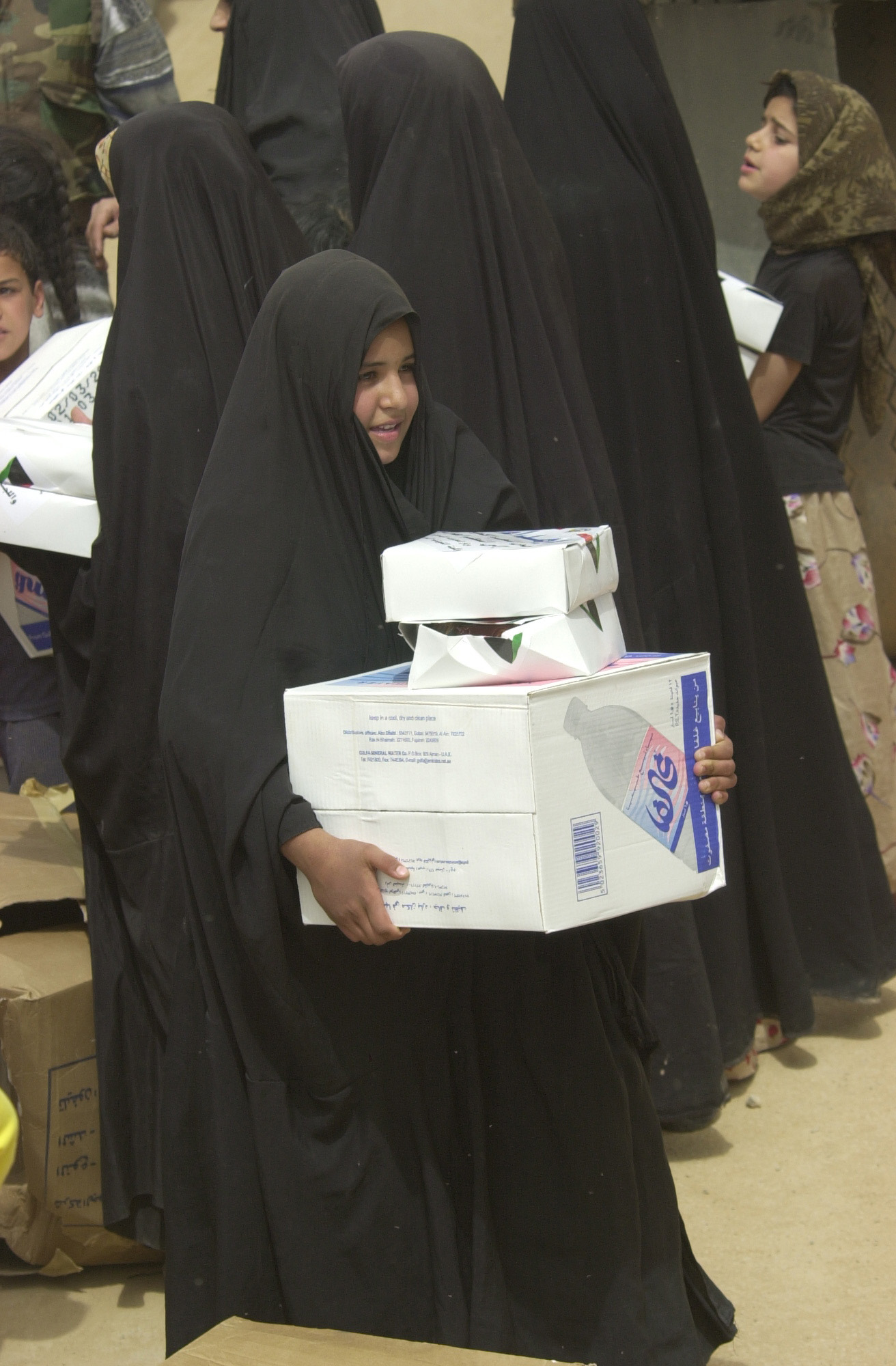 Near Al Najaf, Iraq (April 08, 2003) -- An Iraqi girl carries away a box of bottled water and humanitarian meals that were distributed by citizens of Kuwait and U.S. Army soldiers to Iraqi citizens in need. The U.S. military is working with international relief organizations to help provide food and medicine for the Iraqi people in support of Operation Iraqi Freedom. Operation Iraqi Freedom is the multinational coalition effort to liberate the Iraqi people, eliminate Iraq's weapons of mass destruction and end the regime of Saddam Hussein. U.S. Navy photo by Photographer's Mate 1st Class Arlo K. Abrahamson. (RELEASED)